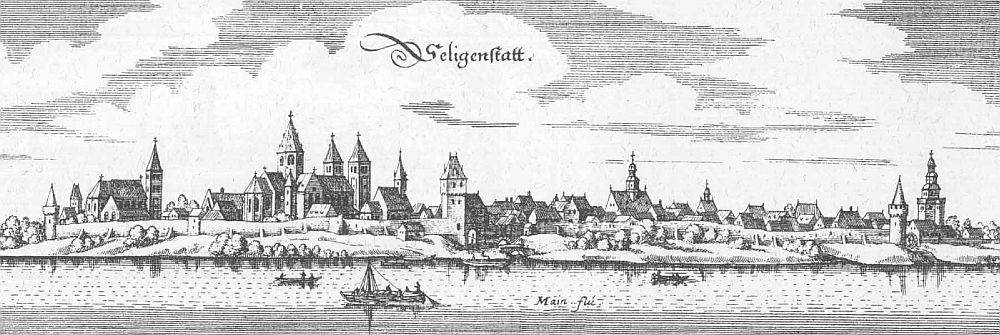 This is a scan of the historical document: Title: Seligenstadt - Topographia Hassiae language: german